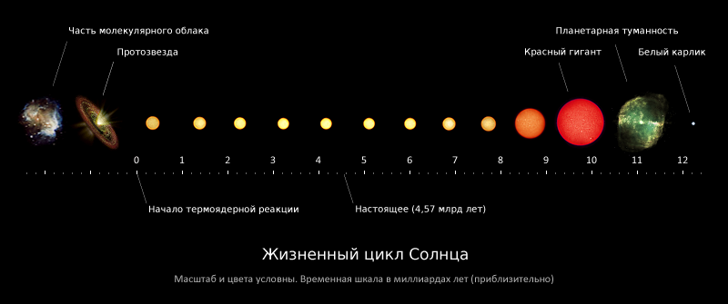 Life-cycle of the Sun (ru)